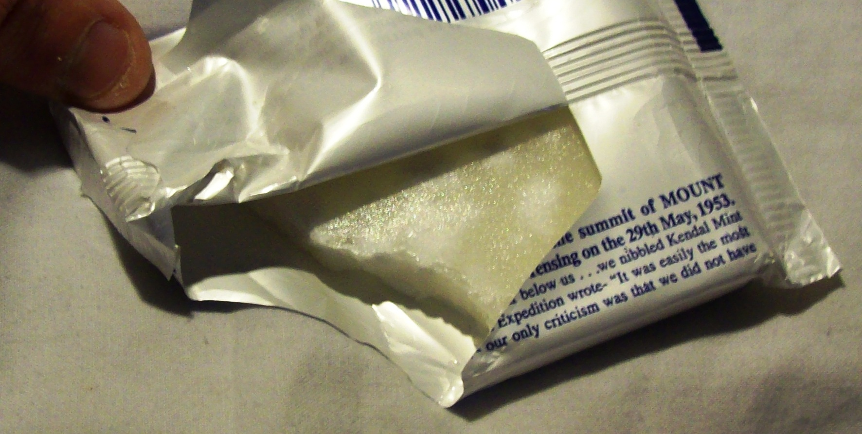 An opened packet of Romney's Kendal Mint Cake.